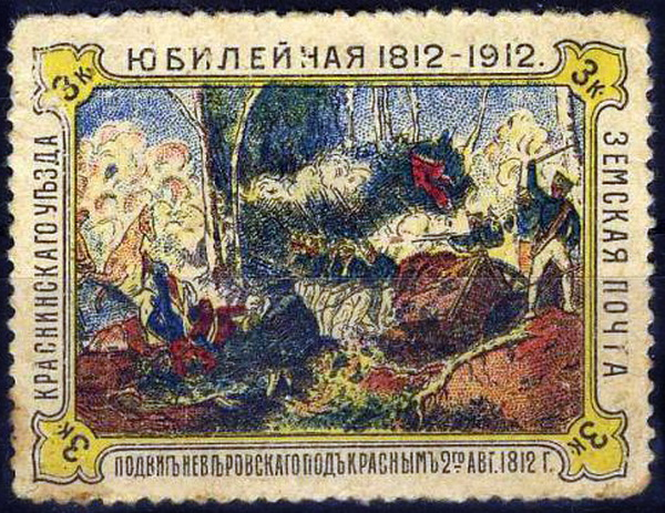 Krasninski rural stamp, 1912, 3k.